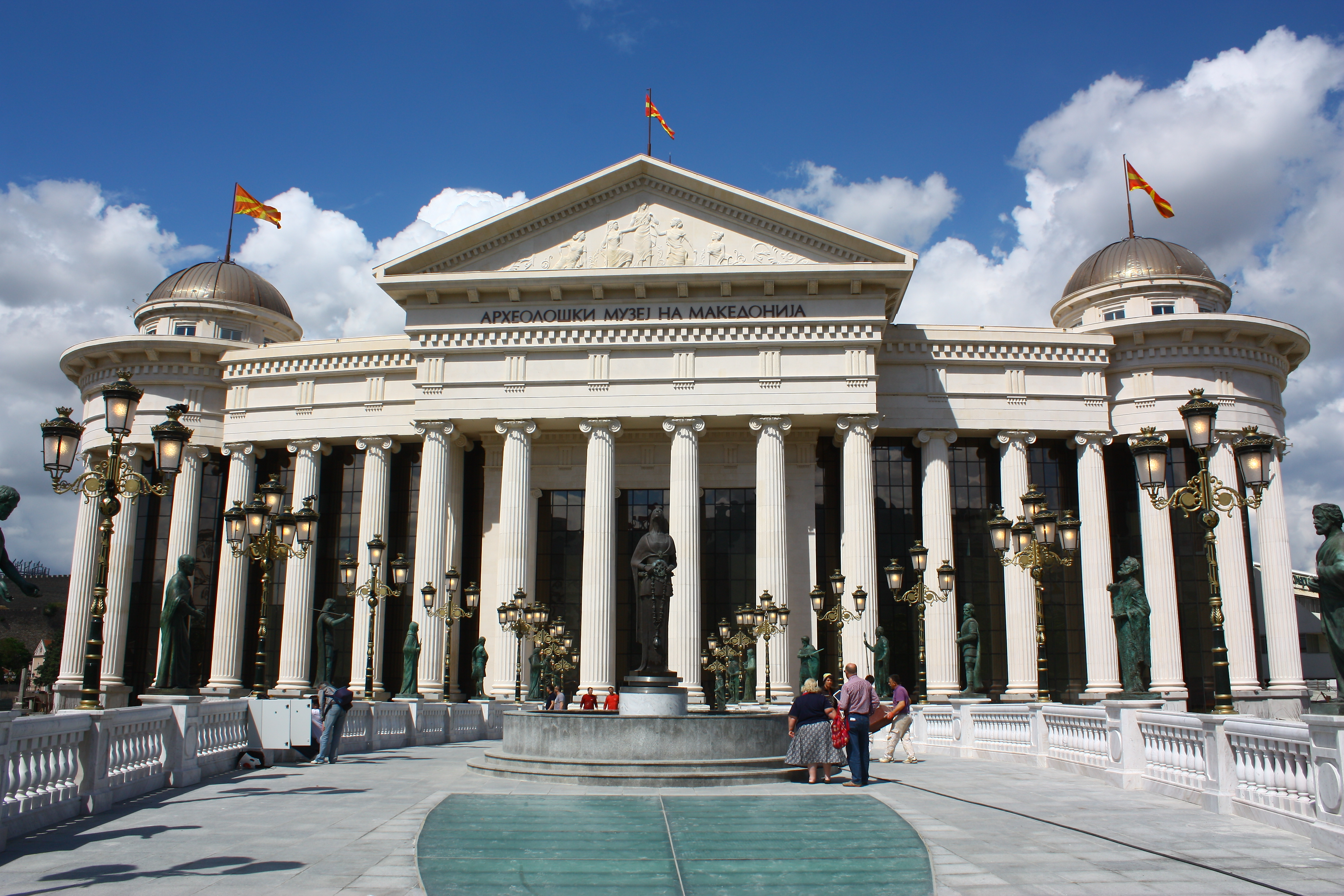 Archeological Museum of Macedonia in Skopje This image is uploaded as part of the picture contest Wiki Loves Cultural Heritage in Macedonia 2013. English | македонски | +/−